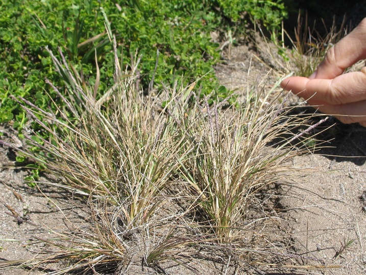 Agrostis blasdalei at Point Reyes National Seashore (Marin County, California, US). "Photos copyrighted as, "Robert Steers/NPS," are public domain and can be used without requesting permission but please give credit."